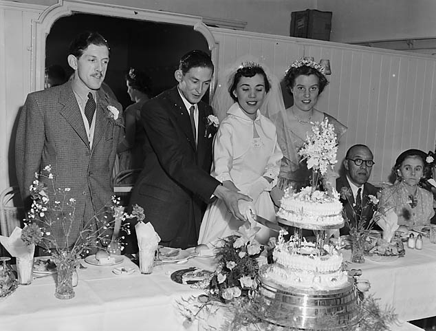 Teitl Cymraeg/Welsh title: Priodas Benyon/Royson Ffotograffydd/Photographer: Geoff Charles (1909-2002) Nodyn/Note: Images of an unidentified bride and groom cutting the wedding cake at the wedding reception with the best man and bridesmaid standing beside them. Dyddiad/Date: August 1, 1954 Cyfrwng/Medium: Negydd ffilm / Film negative Cyfeiriad/Reference: (gch06525) Rhif cofnod / Record no.: 3367921 Rhagor o wybodaeth am gasgliad Geoff Charles yn Llyfrgell Genedlaethol Cymru More information about the Geoff Charles Collection at the National Library of Wales